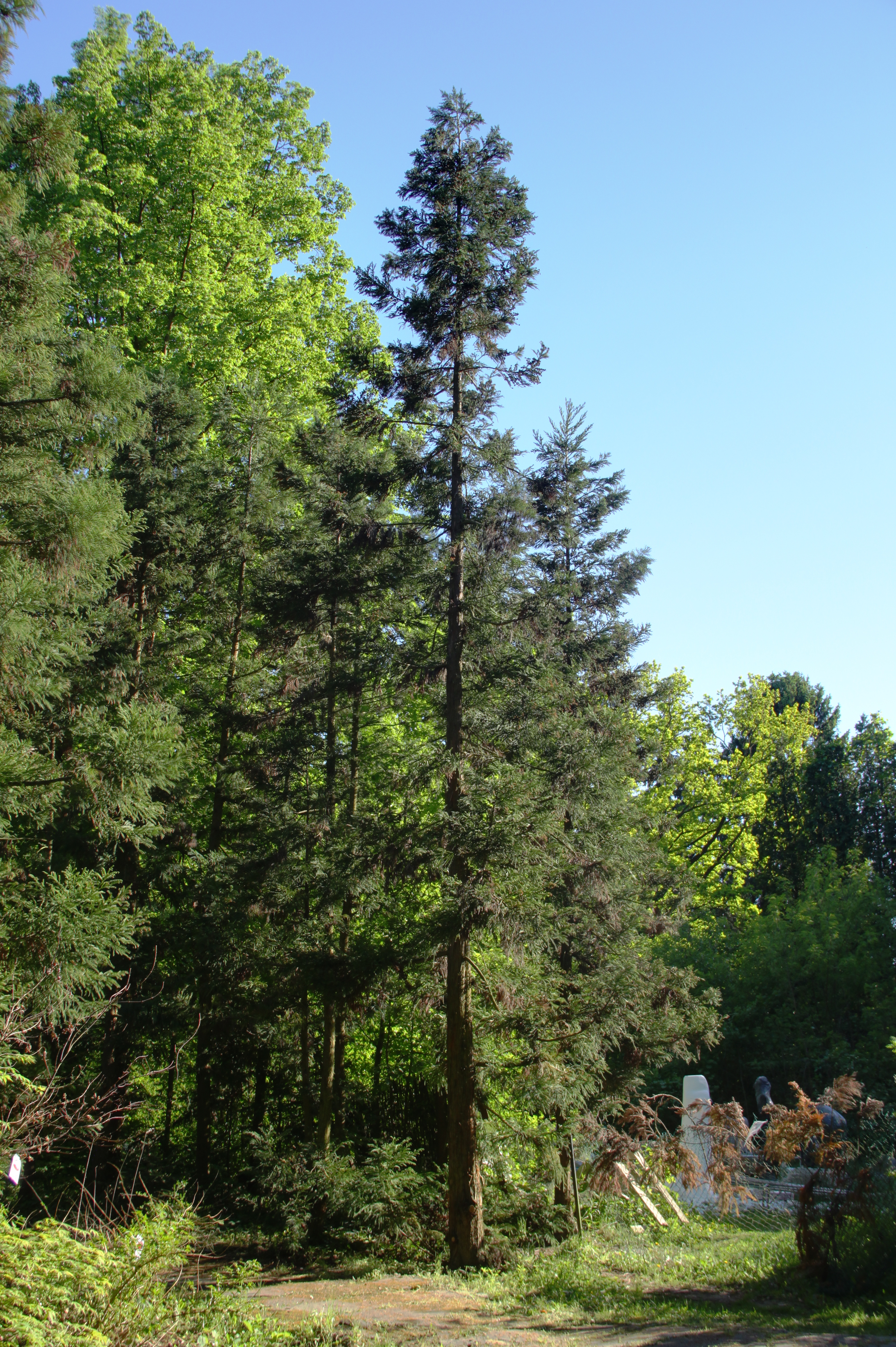 Cryptomeria japonica in PAN Botanical Garden in Warsaw, Poland